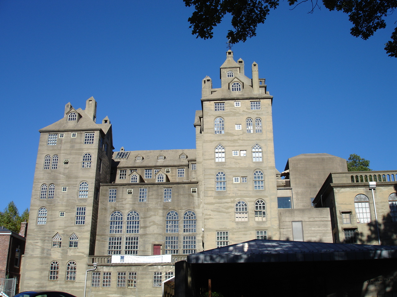 I took this photo myself on 10/8/06